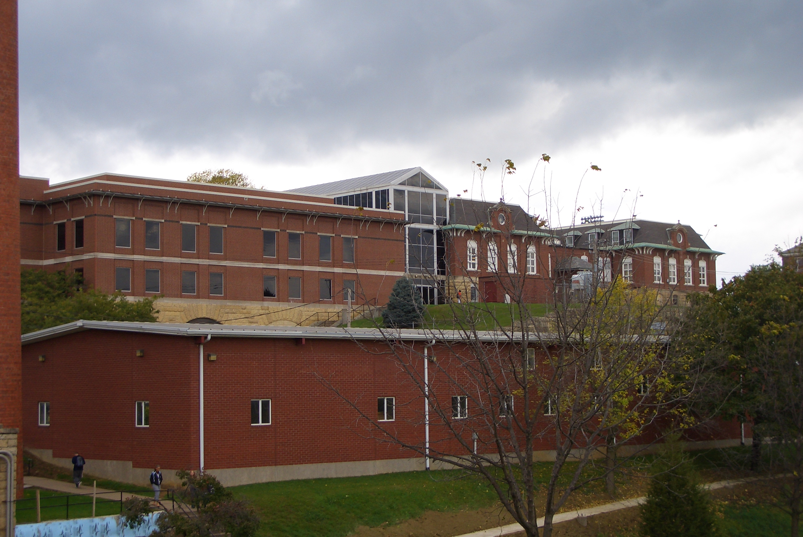 Loras College; The ACC, as seen from Loras Blvd (Lower Campus), with the power plant in the foreground